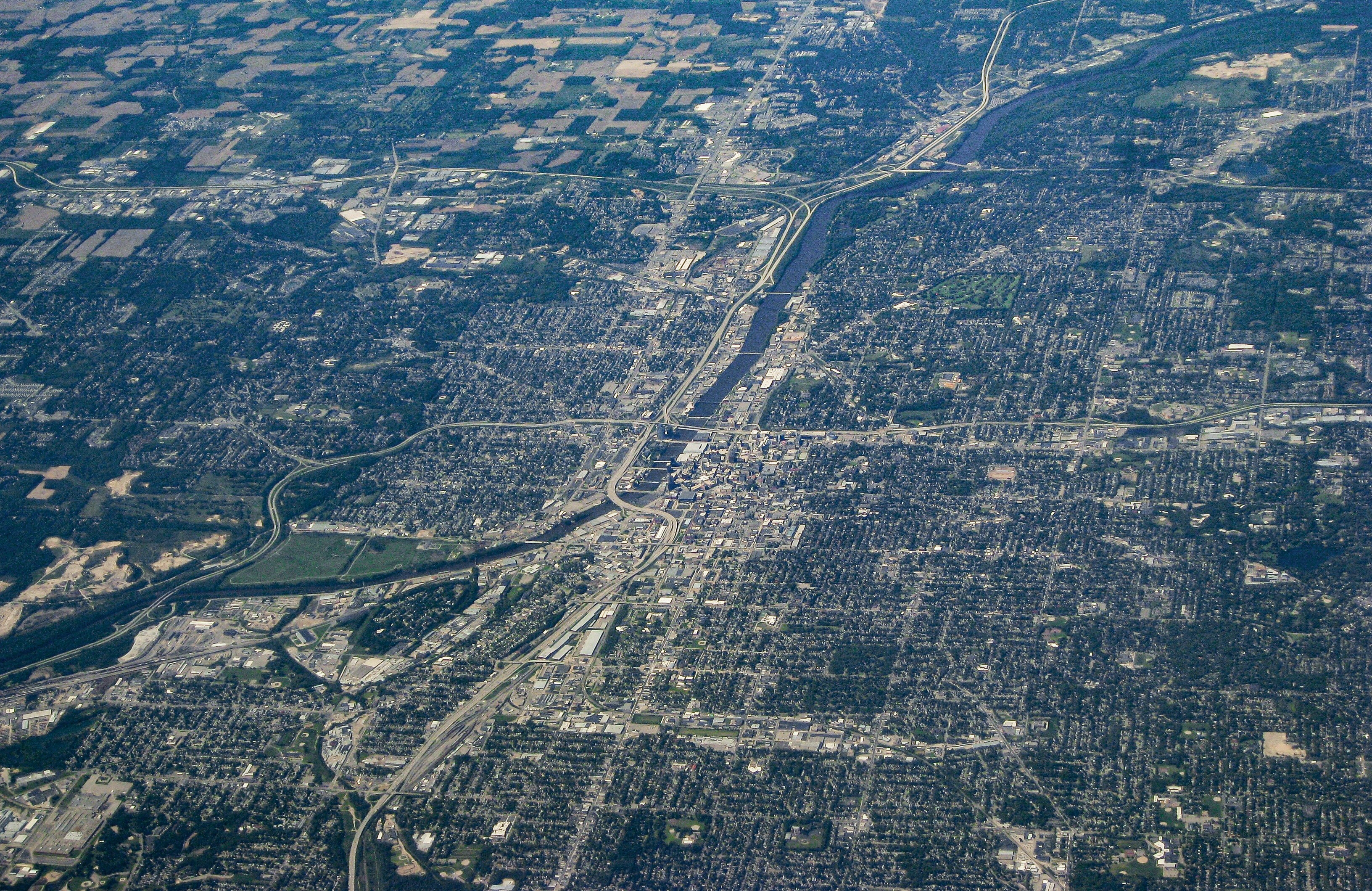 Grand Rapids aerial view.